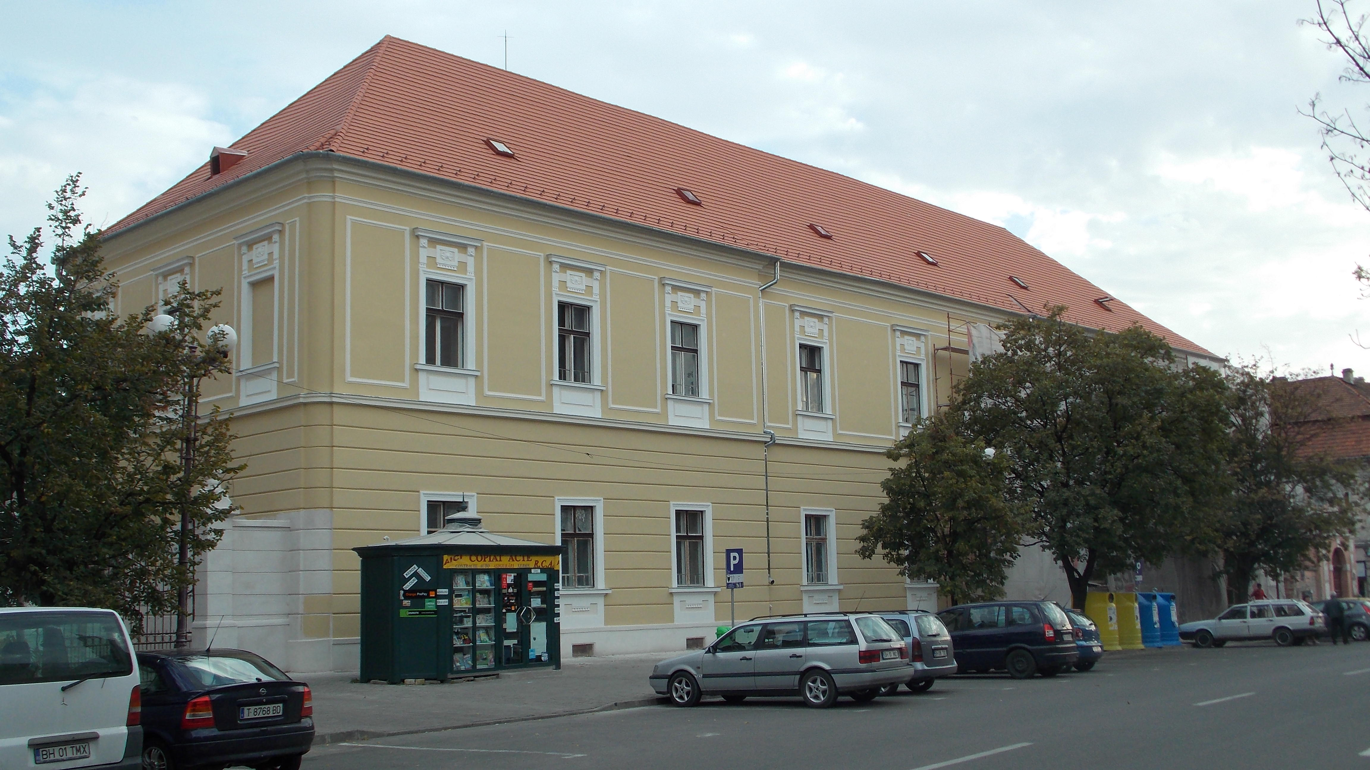 Hospital of the Misericordian Order